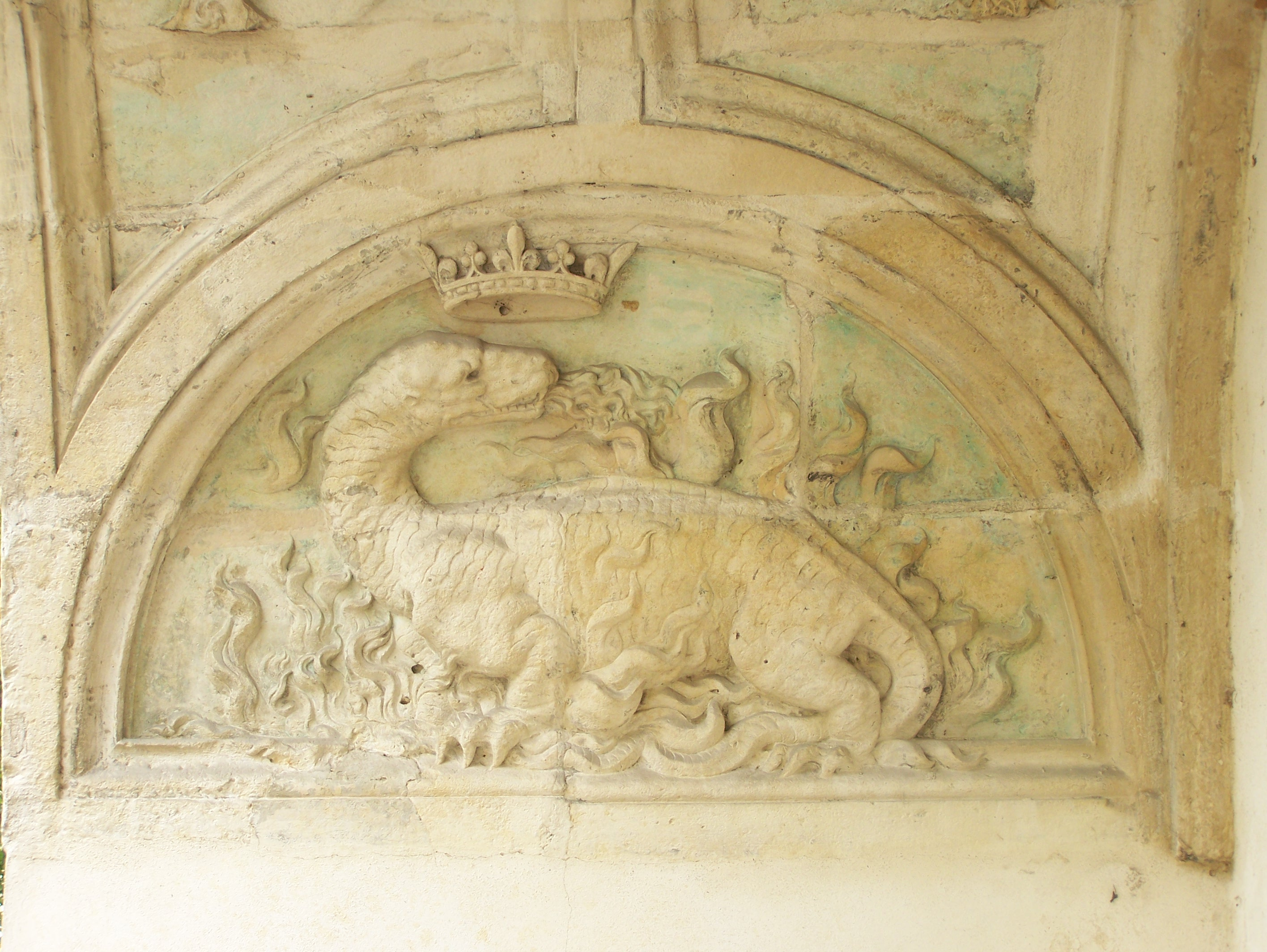 Square Léopold-Achille (Parc royal), rue du Parc-royal, Paris. Sculpture